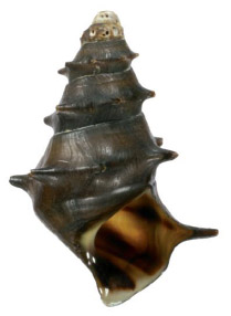 Shell of Brotia pagodula, type species of the genus Brotia, family Pachychilidae from Thailand, Maenam Moei